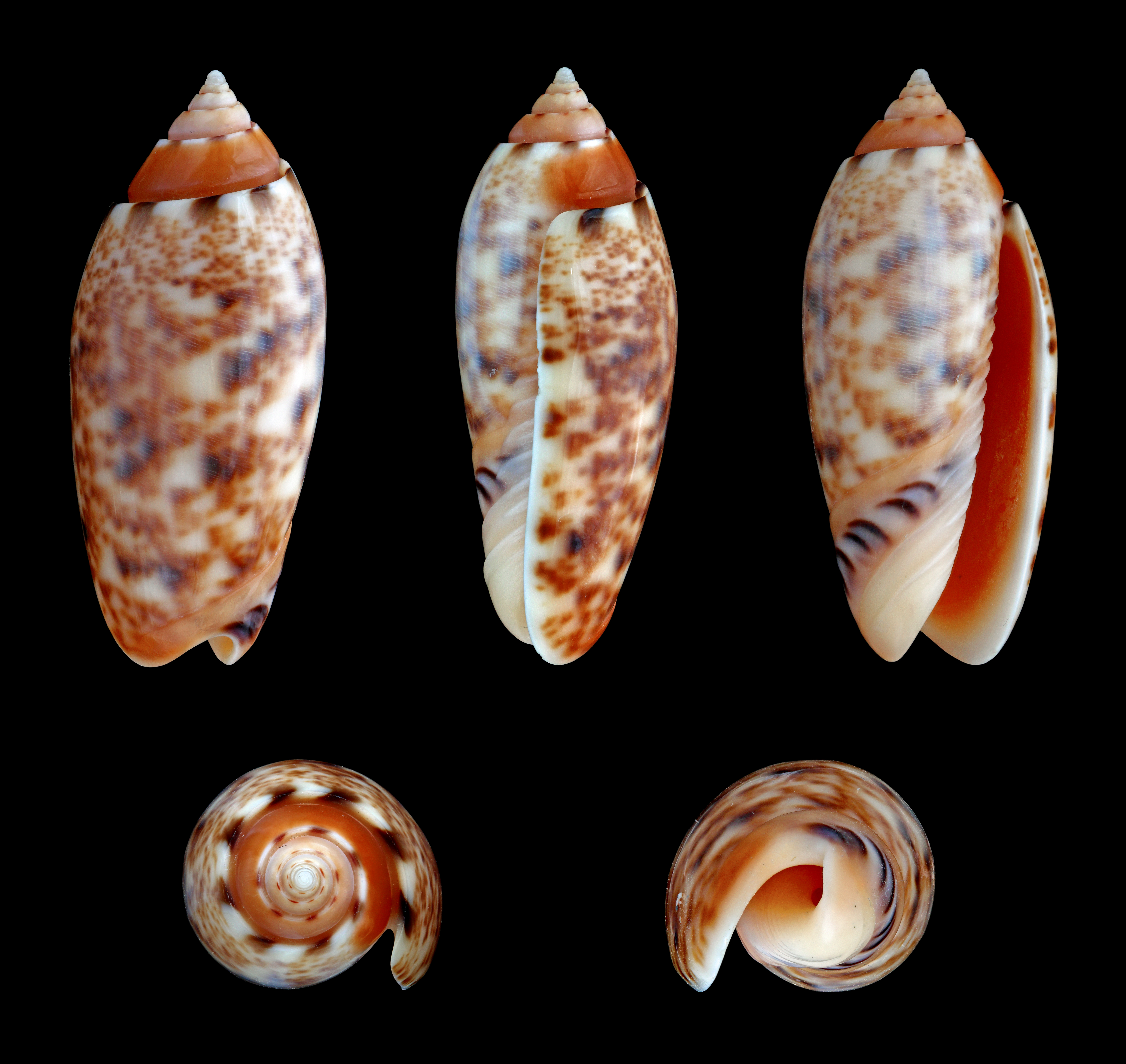 Amethyst Olive; Length 3.8 cm; Originating from Bohol, Philippines; Shell of own collection, therefore not geocoded. Dorsal, lateral (right side), ventral, back, and front view.